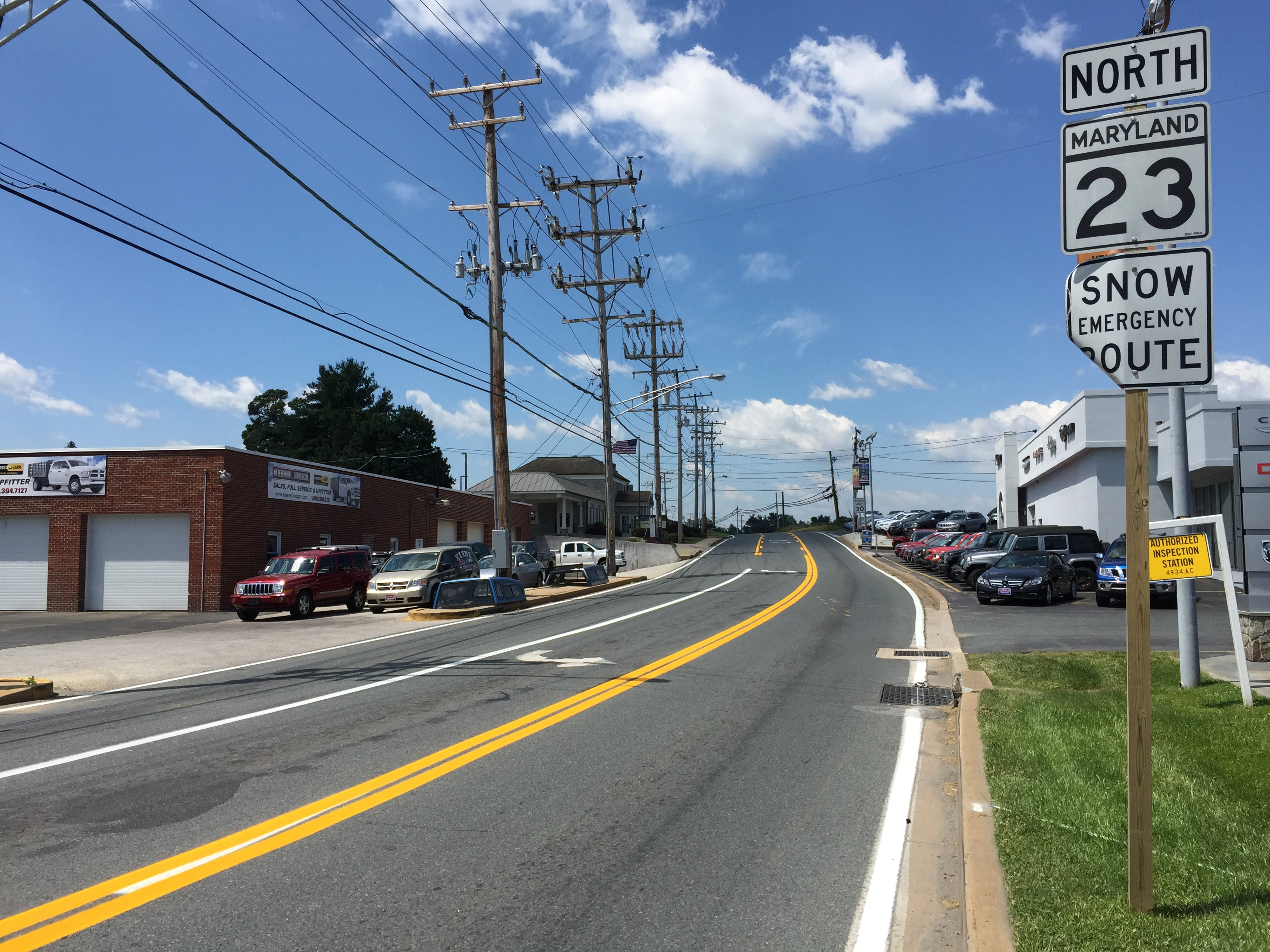 View north along Maryland State Route 23 (Norrisville Road) just north of Maryland State Route 165 (Baldwin Mill Road) in Jarrettsville, Harford County, Maryland